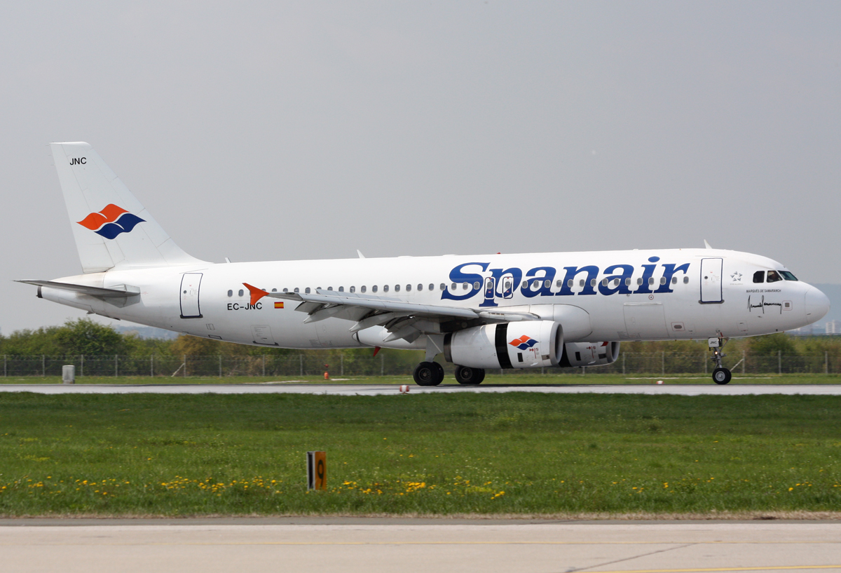 The first flight of the Spanair to Zagreb Airport.